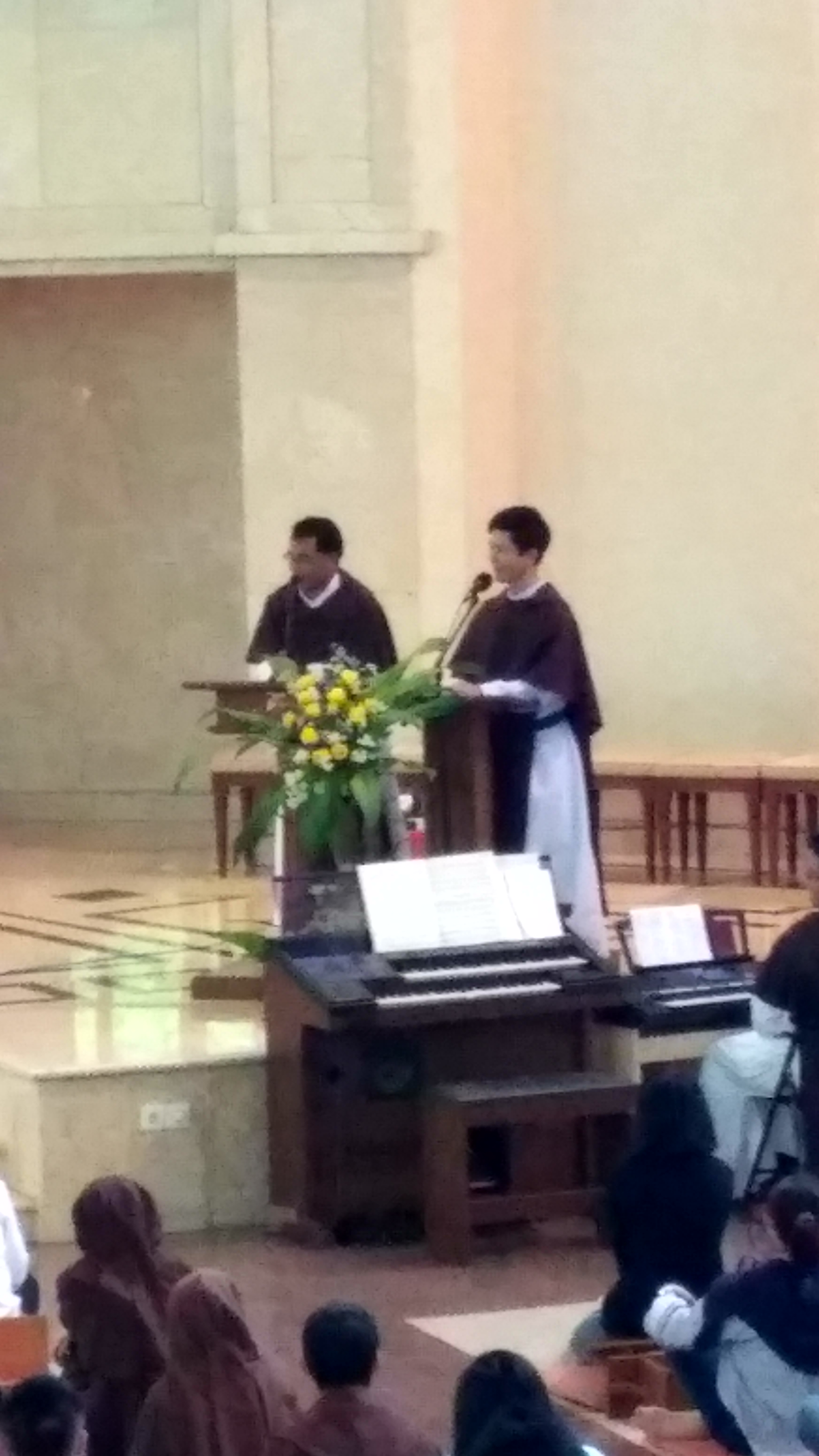 Two Carmelite friars leading praise in the Healing Mass in the Seventh Sunday of Easter at Gedung Serba Guna St. Theresia, Lembah Karmel Retreat House, Cikanyere.